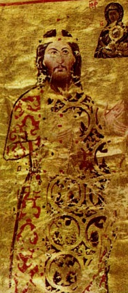 Illuminated donor portrait of the sebastokrator Constantine Palaiologos, from the Typikon of the Monastery of Our Lady of Certain Hope ("Lincoln Typicon").